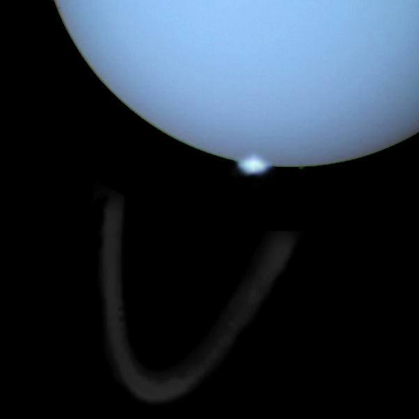 This composite image combines 2011 Hubble observations of the aurora of Uranus, in line with its equatorial rings, in visible and ultraviolet light, 1986 Voyager 2 photos of the cyan disk of Uranus as seen in visible light, and 2011 Gemini Observatory observations of the faint ring system as seen in infrared light.